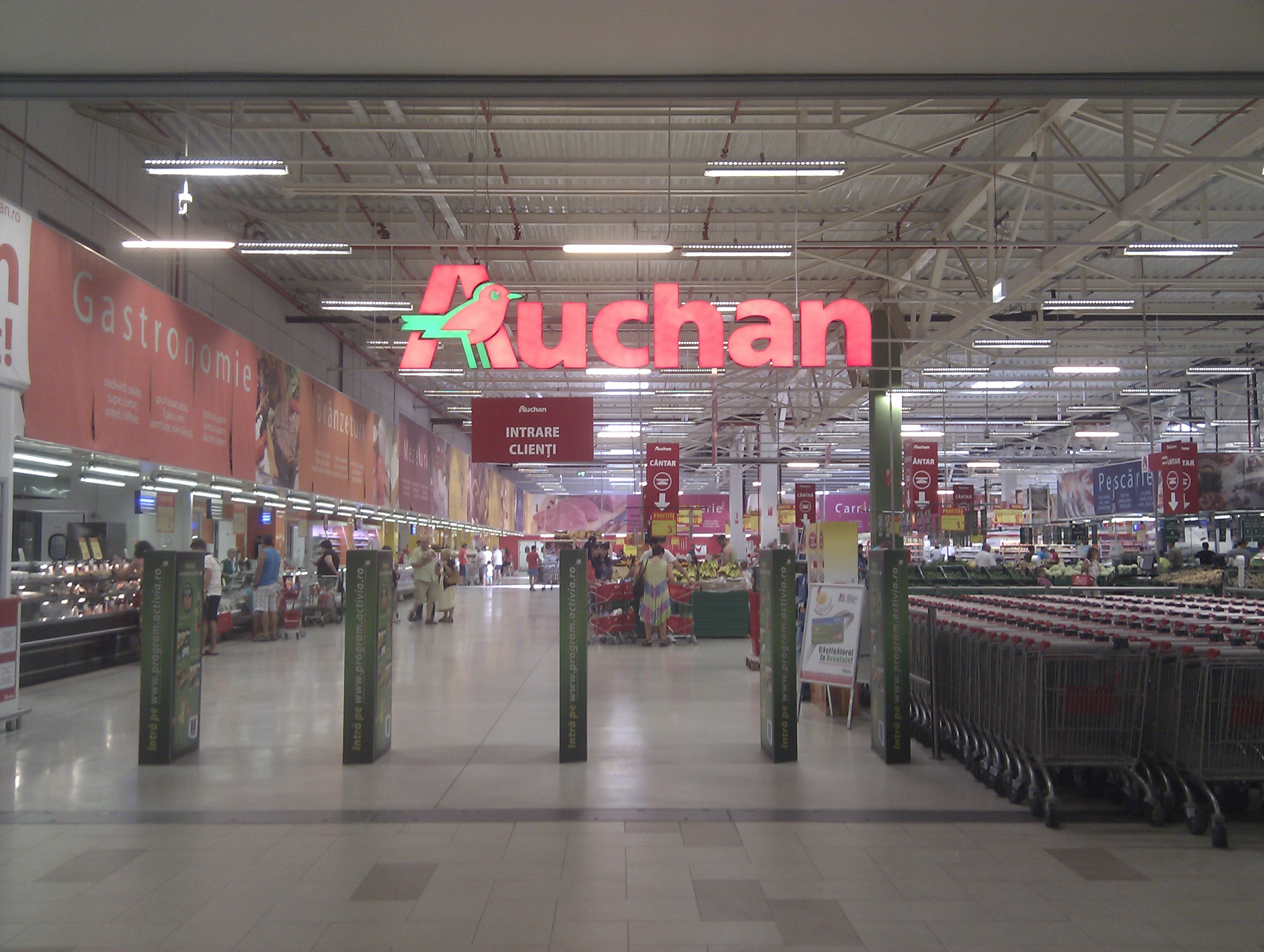 Entrance to an Auchan hypermarket in Maritimo Shopping Center, Constanta, Romania.